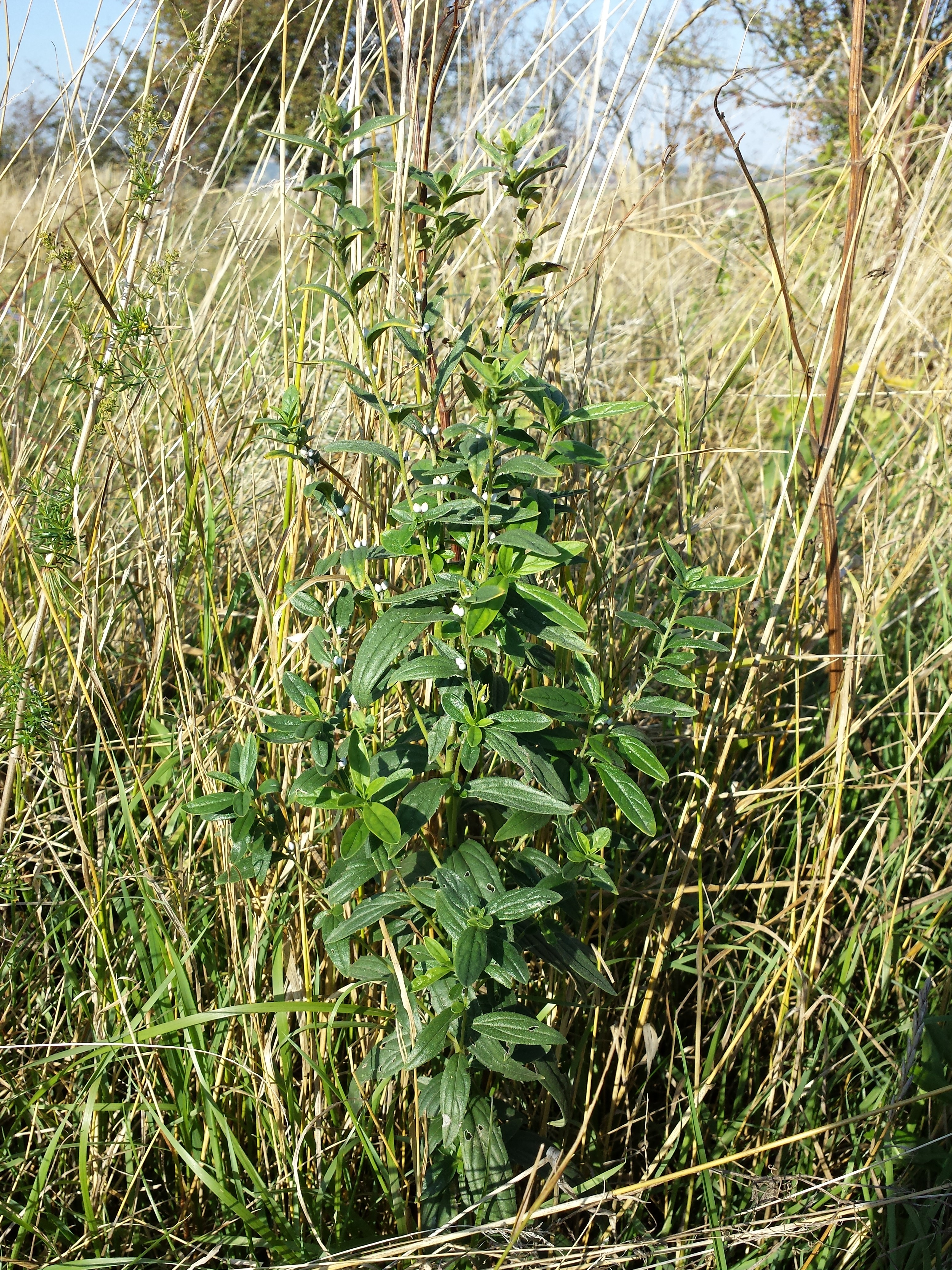 Habitus Taxon: Lithospermum officinale (sensu Fischer et al. EfÖLS 2008, det M. A. Fischer 2013-09-28) Location: Alte Schanzen, object X, Floridsdorf, Vienna - ca. 220 m a.s.l. Habitat: dry grassland